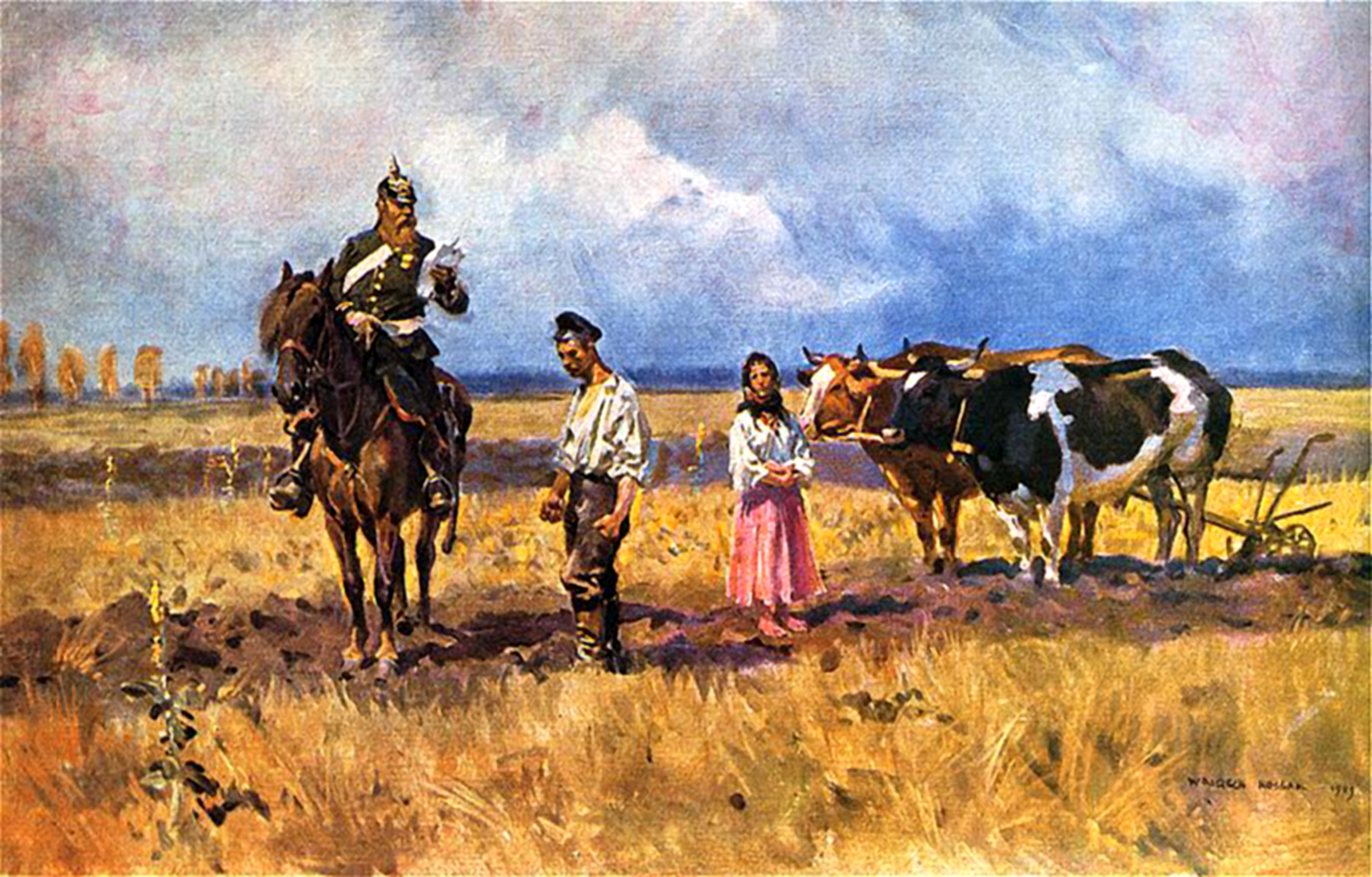 "Rugi pruskie" (Prussian expulsions of Poles, Polenausweisungen), 1909 painting by Wojciech Kossak